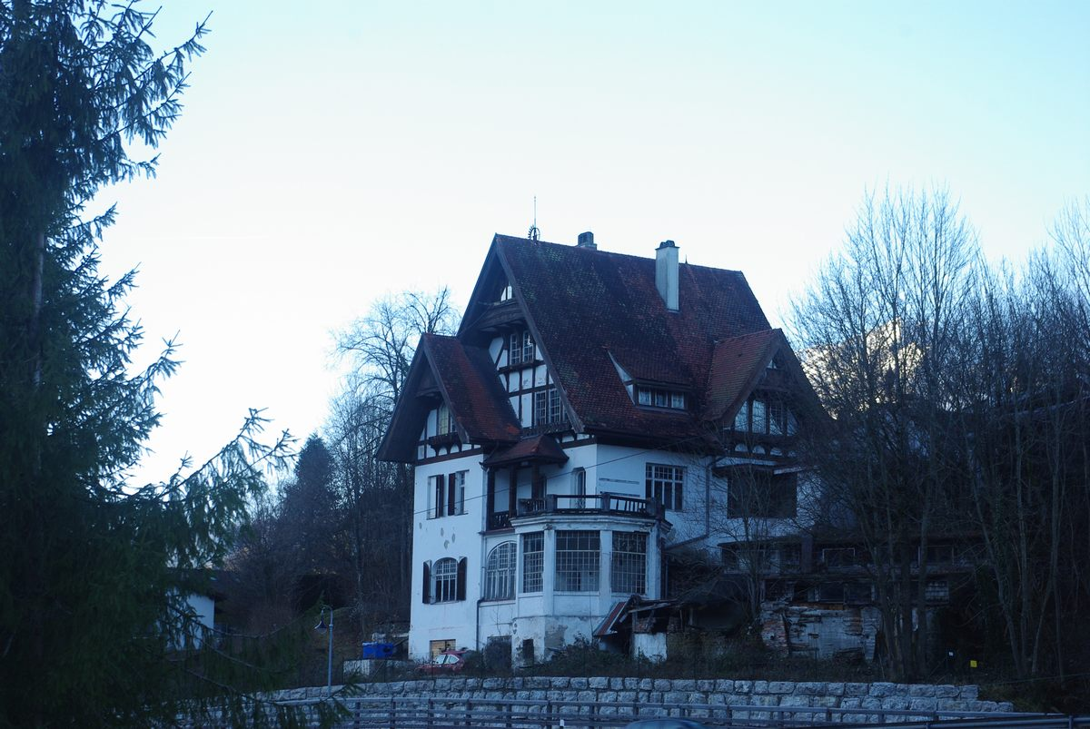 Villa Berchtesgadener Straße 5 in 83457 Bayerisch Gmain This is a photograph of an architectural monument.